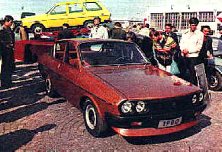 A Dacia coupe prototipe,build in Brasov in 1982.